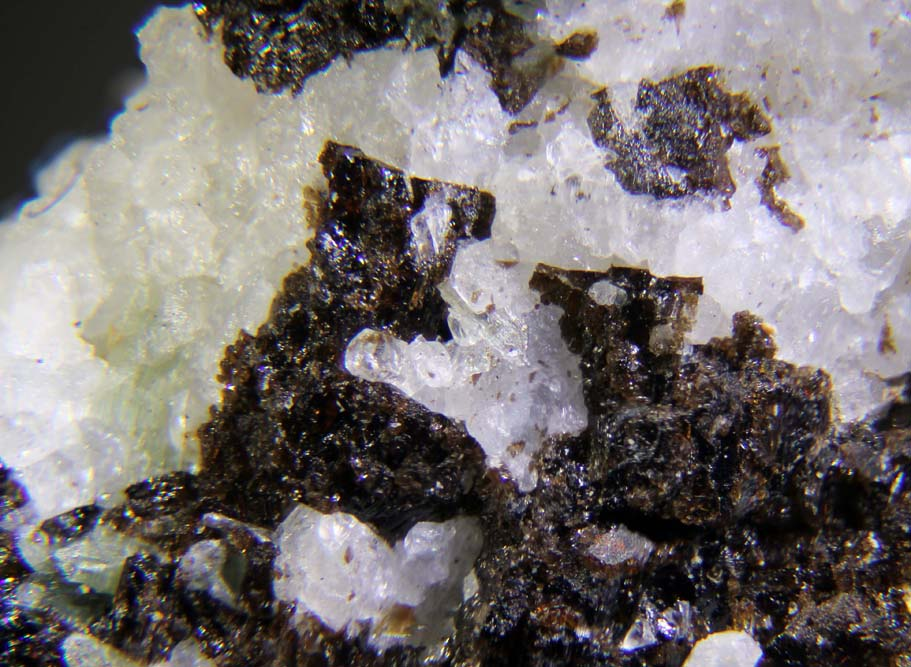 Colorless grains fluorescent (SW, white) of bazirite associated to celsian (white granular), pale green tremolite and taramellite. Ex.Ralpf Merrill collection. From: Big Creek, Fresno County, California, United States of America.